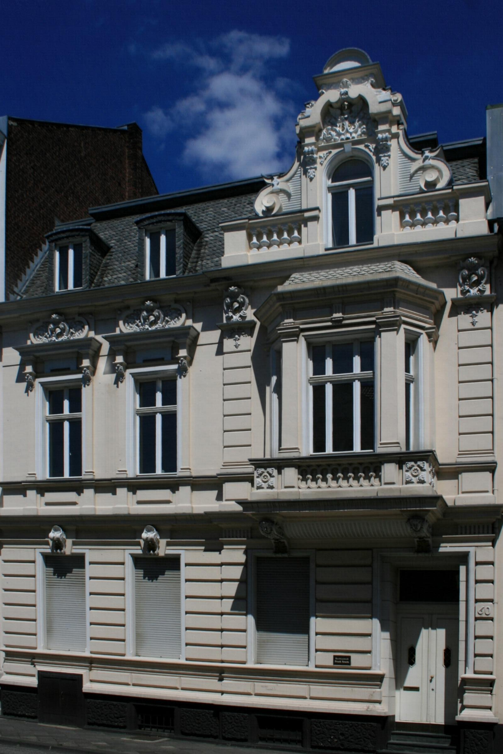 Cultural heritage monument No. H 031 in Mönchengladbach